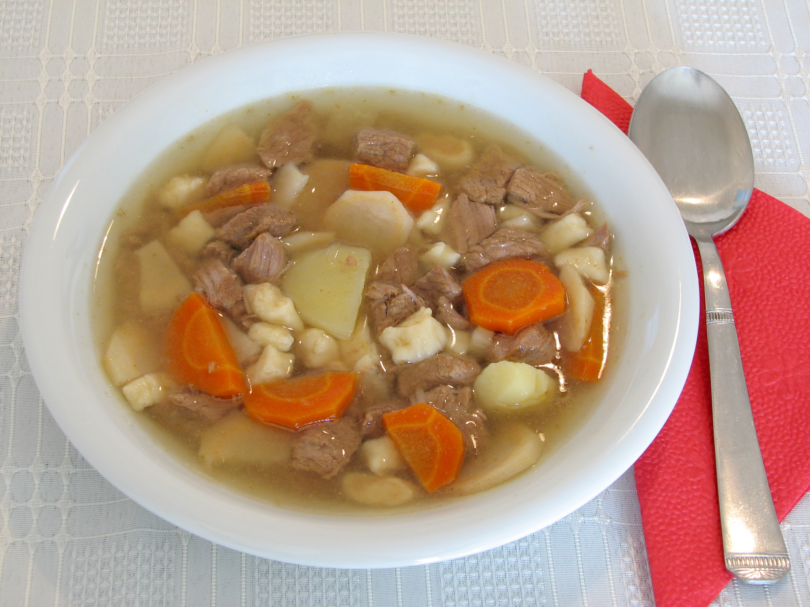 Home-made Hungarian goulash soup.